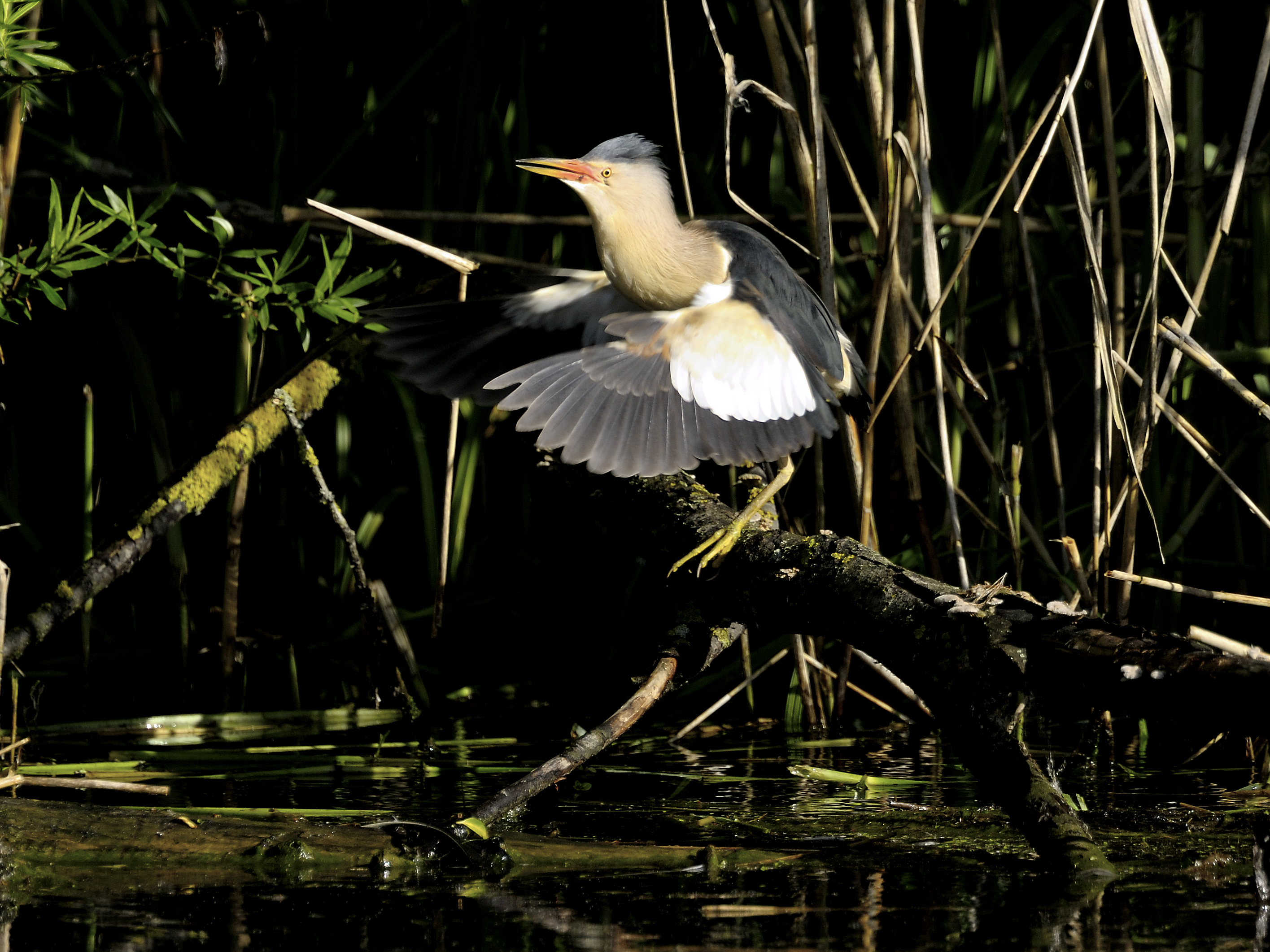 Little Bittern in the Pleidelsheimer Wiesental nature preserve